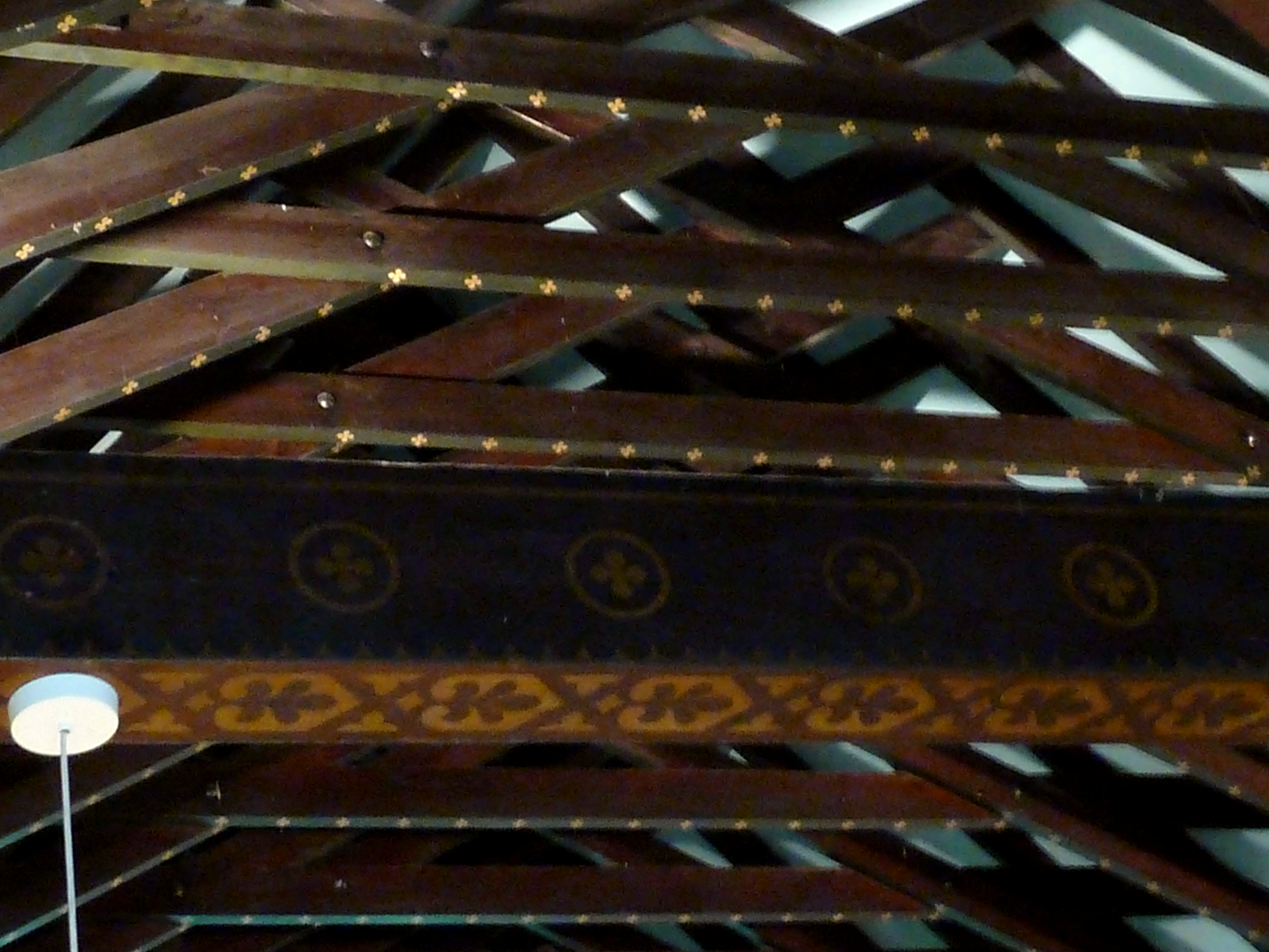 Interior of Church of St John the Divine, Calder Grove, Wakefield, West Yorkshire, England. Designed in 1892 by William Swinden Barber. Showing cross-braced trusses in chancel roof. Note the original 1892 stencil work on the tie-beam as well as all the other beams.